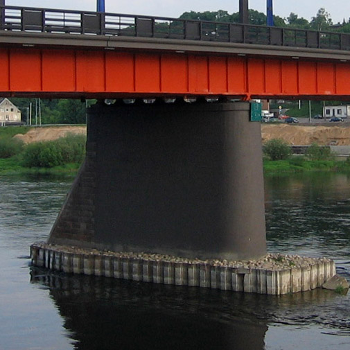 Aleksotas bridge in Kaunas (detail).